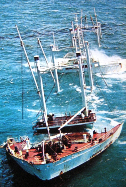 Ships in distress.